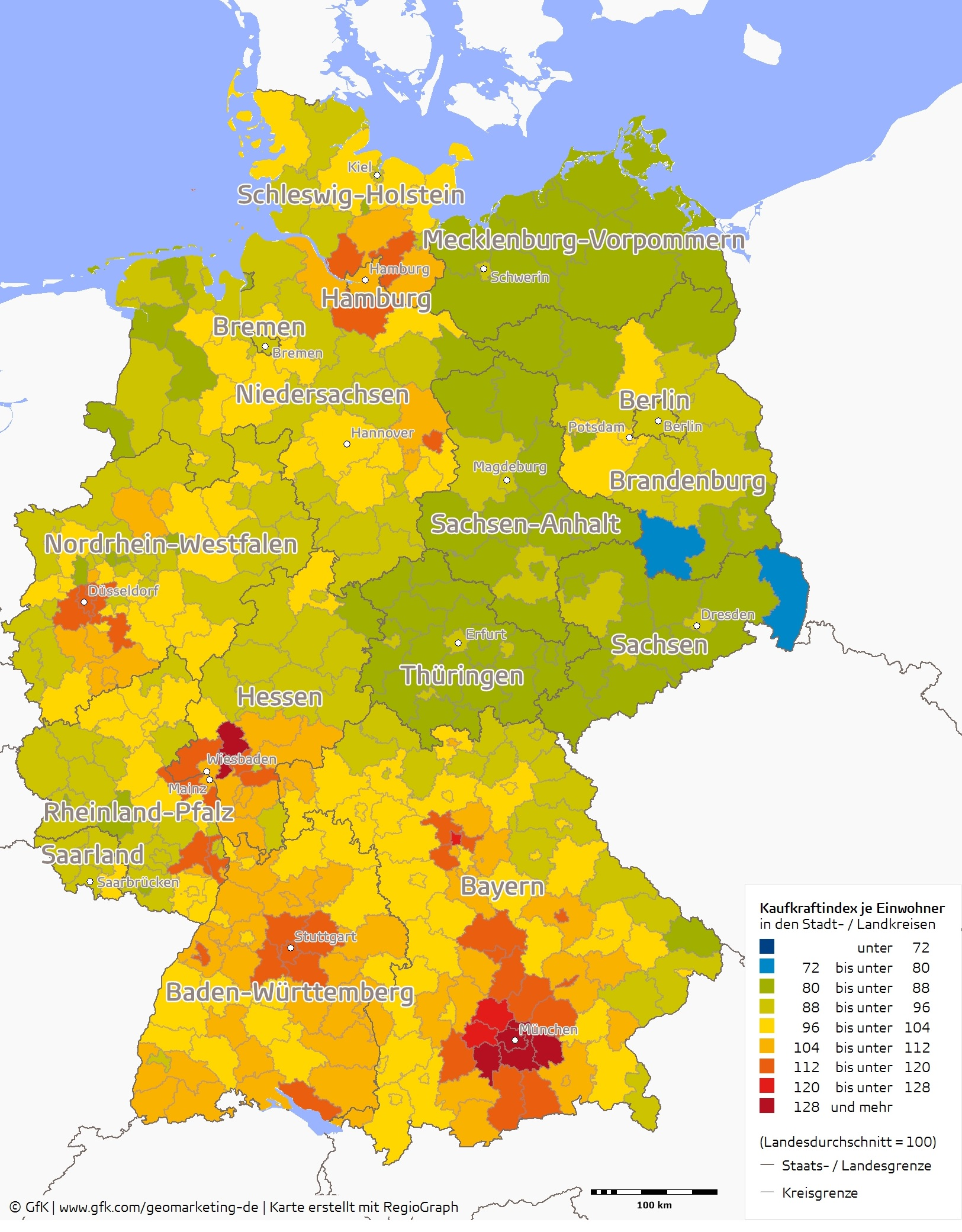 Purchasing power in Germany 2018